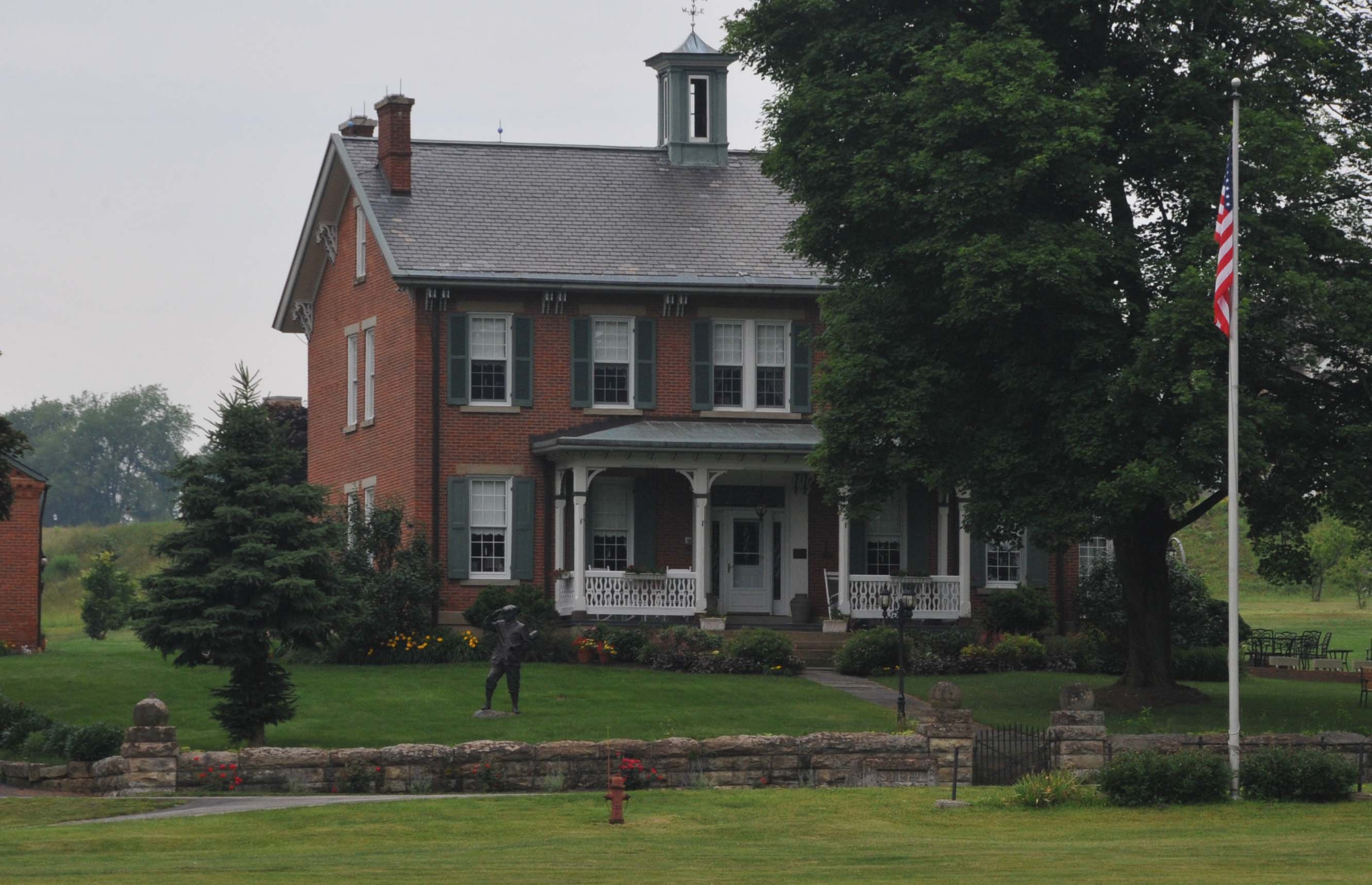 HANNASTOWN FARM; ALSO KNOWN AS WILLIAM STEEL FARM. SITE CONSISTS OF A 1866 ITALIANATE BRICK MANSION AND MULTIPLE OUTBUILDINGS